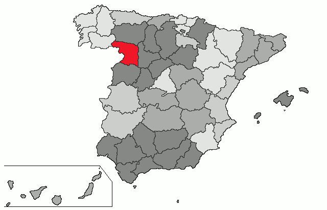 ES: Provincia de Zamora EN: Province of Zamora Based in: Image:ProvPont.jpg Source: Designed by Leoplus. Original picture, designed by Sobreira.